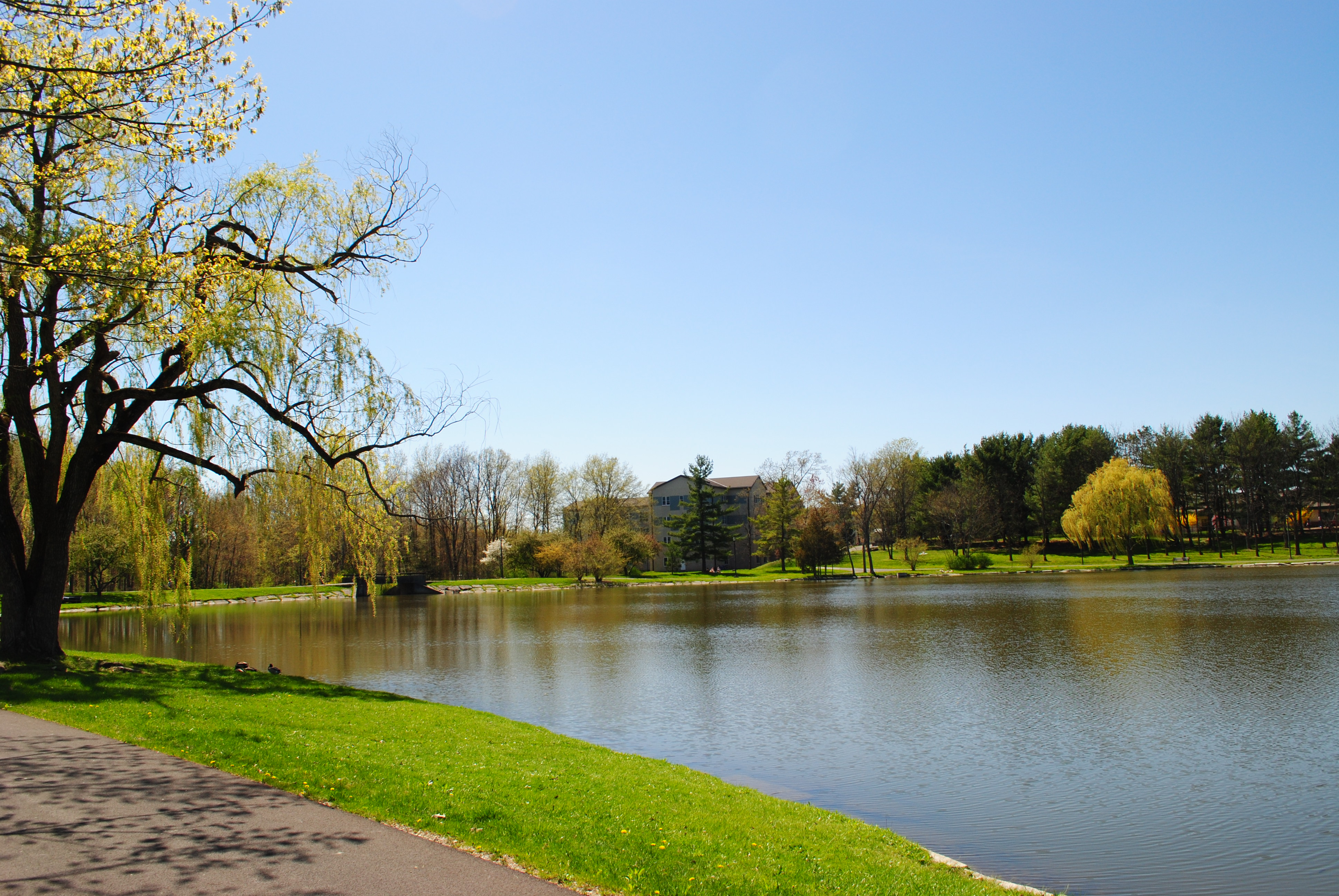 A picture of the Pond at SUNY New Paltz in New Paltz, NY.